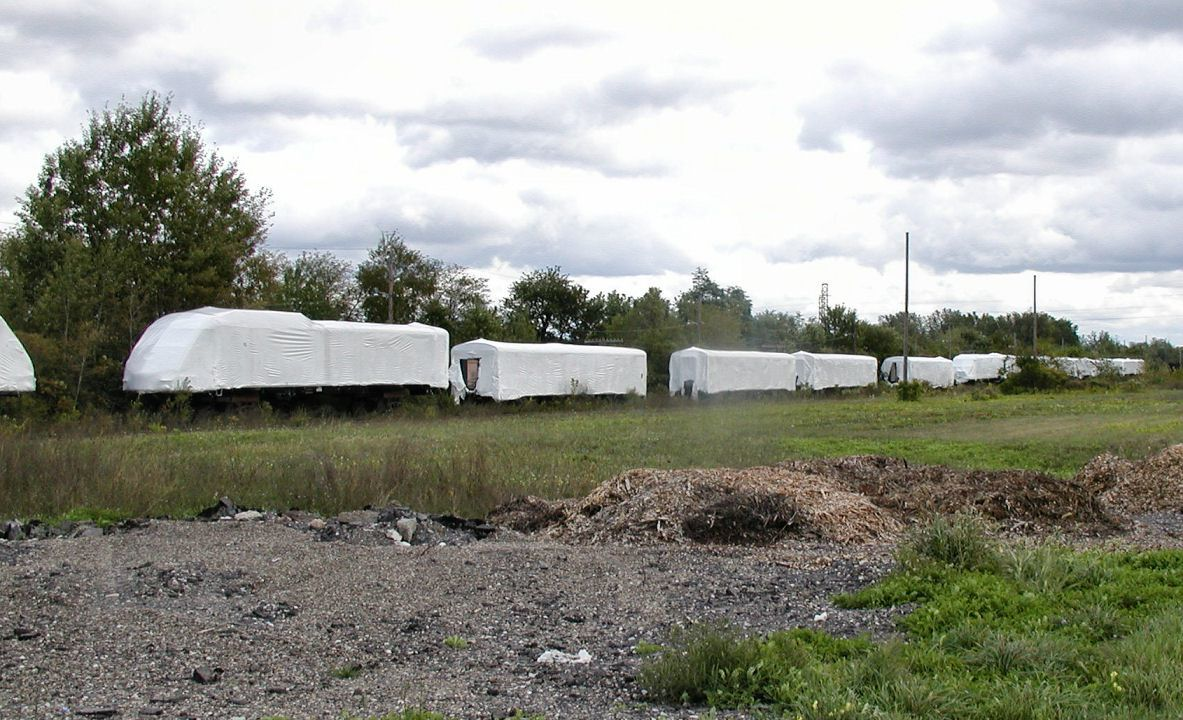 Unrebuilt Amtrak Turboliner RTL II power cars and coaches sit wrapped in plastic behind the Super Steel plant in 2006.